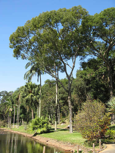 a rose jequitiba (Cariniana legalis) at jardim botanico de sao paulo Brazil